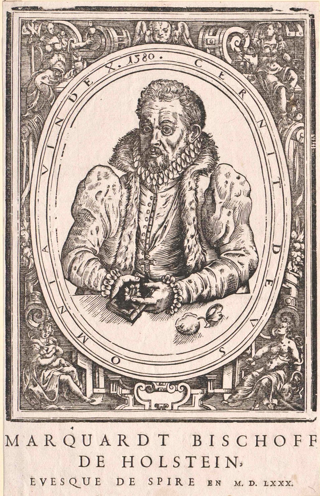 Marquard von Hattstein (1529-1581), Bischof von Speyer